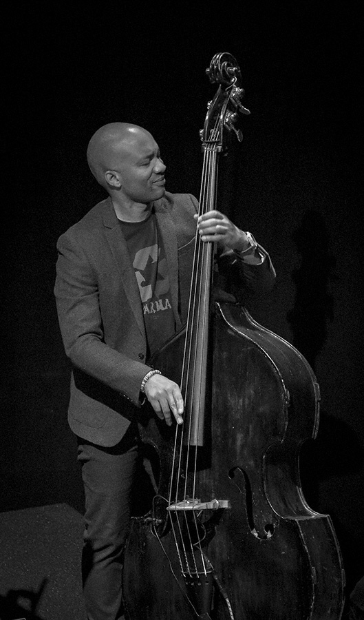 Reuben Rogers performs with Tomasz Stanko at Cosmopolite Scene in Oslo on 9.4.16. Lineup: Tomasz Stanko (trumpet) David Virelles (piano) Reuben Rogers (bass) Gerald Cleaver (drums)